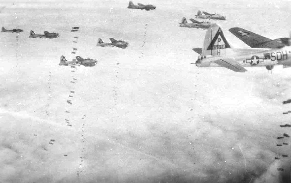 Boeing B-17G formation bomb drop. Closest aircraft (SO-H) is B-17G-70-DL (S/N 44-6898) of the 384th Bomb Group, 547th Bomb Squadron.